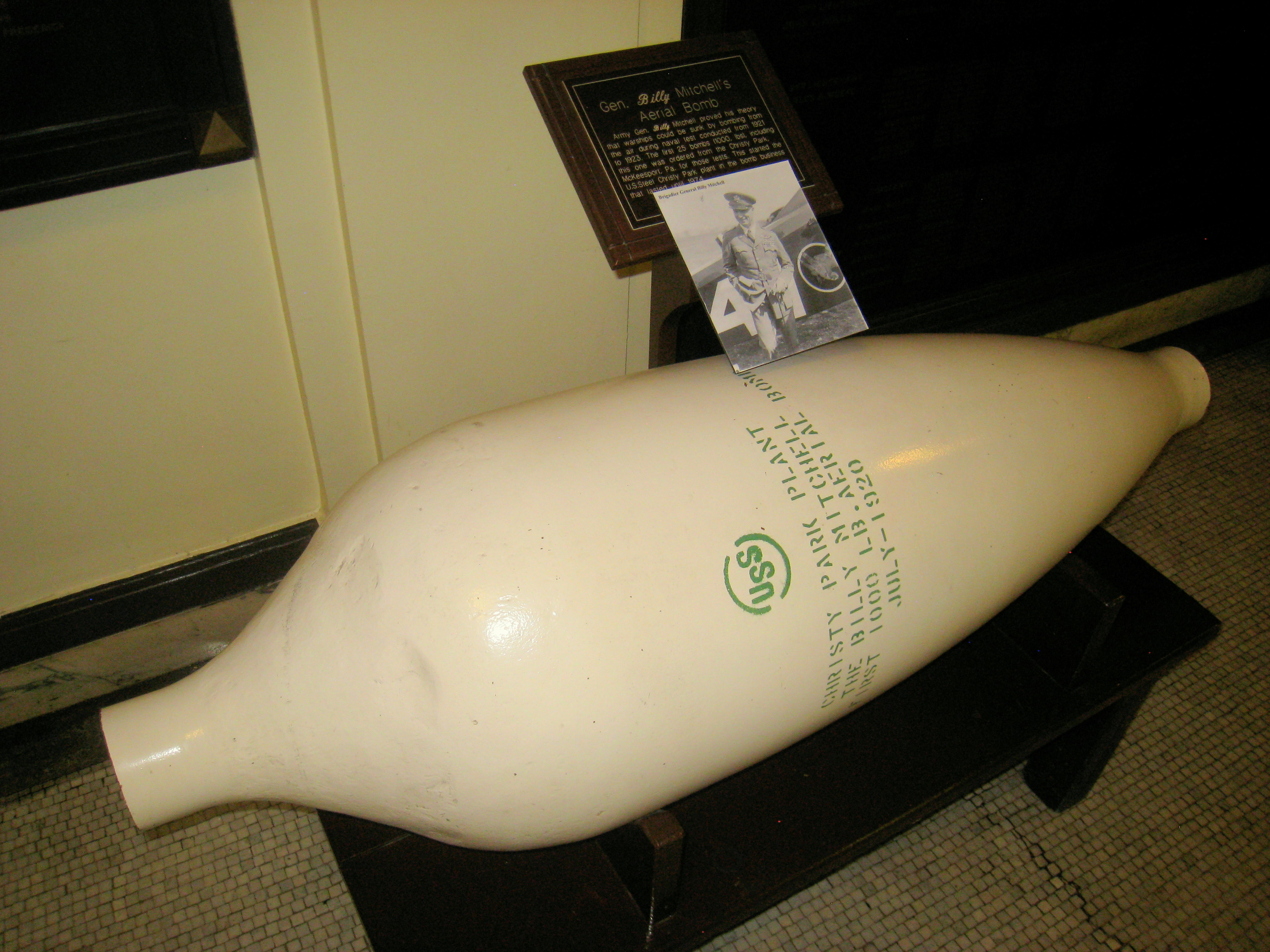 Interior view, Soldiers and Sailors National Military Museum and Memorial (formerly Allegheny County Soldiers' Memorial), Pittsburgh, Pennsylvania, USA.